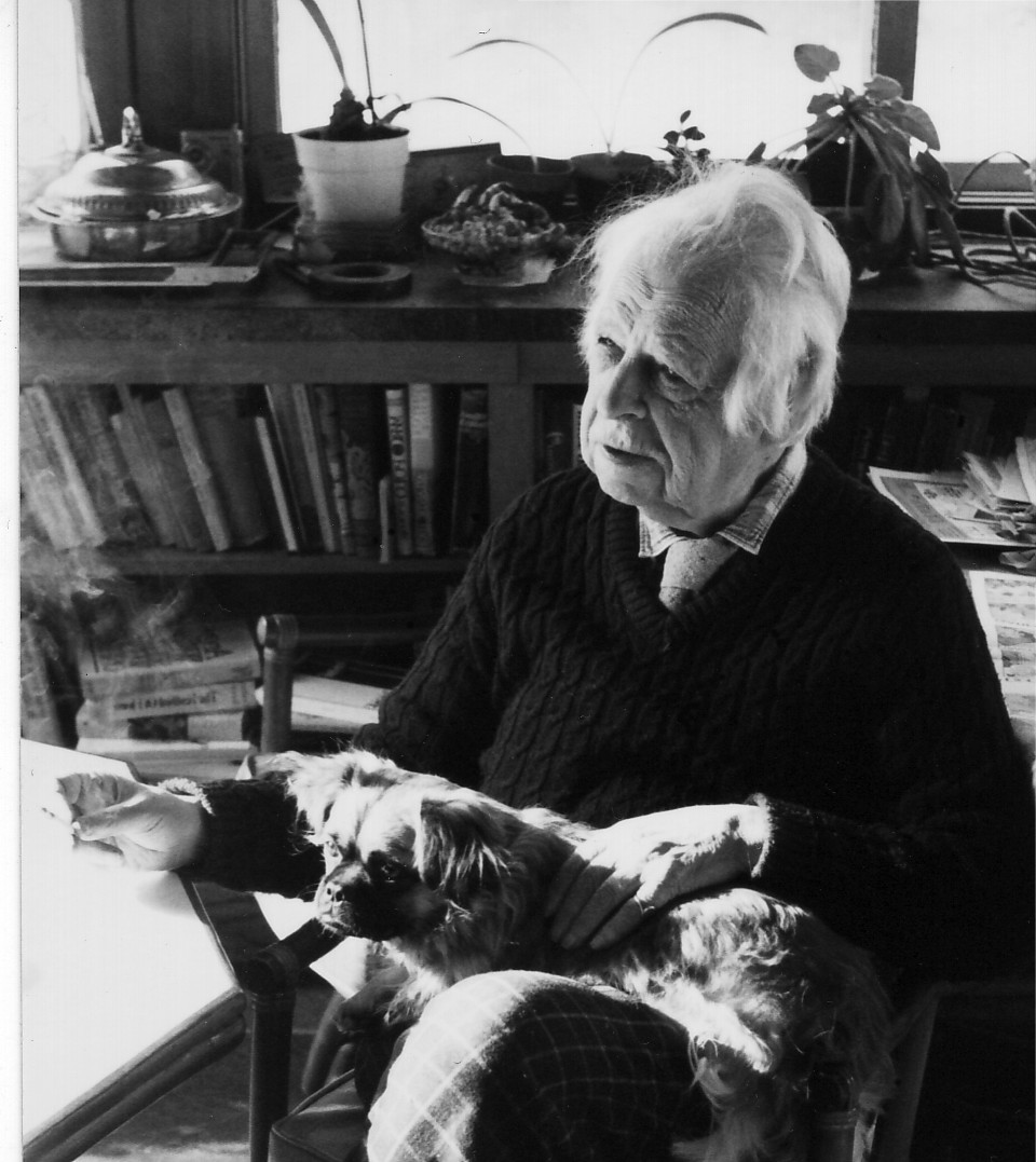 Photograph of Thomas G. Bergin